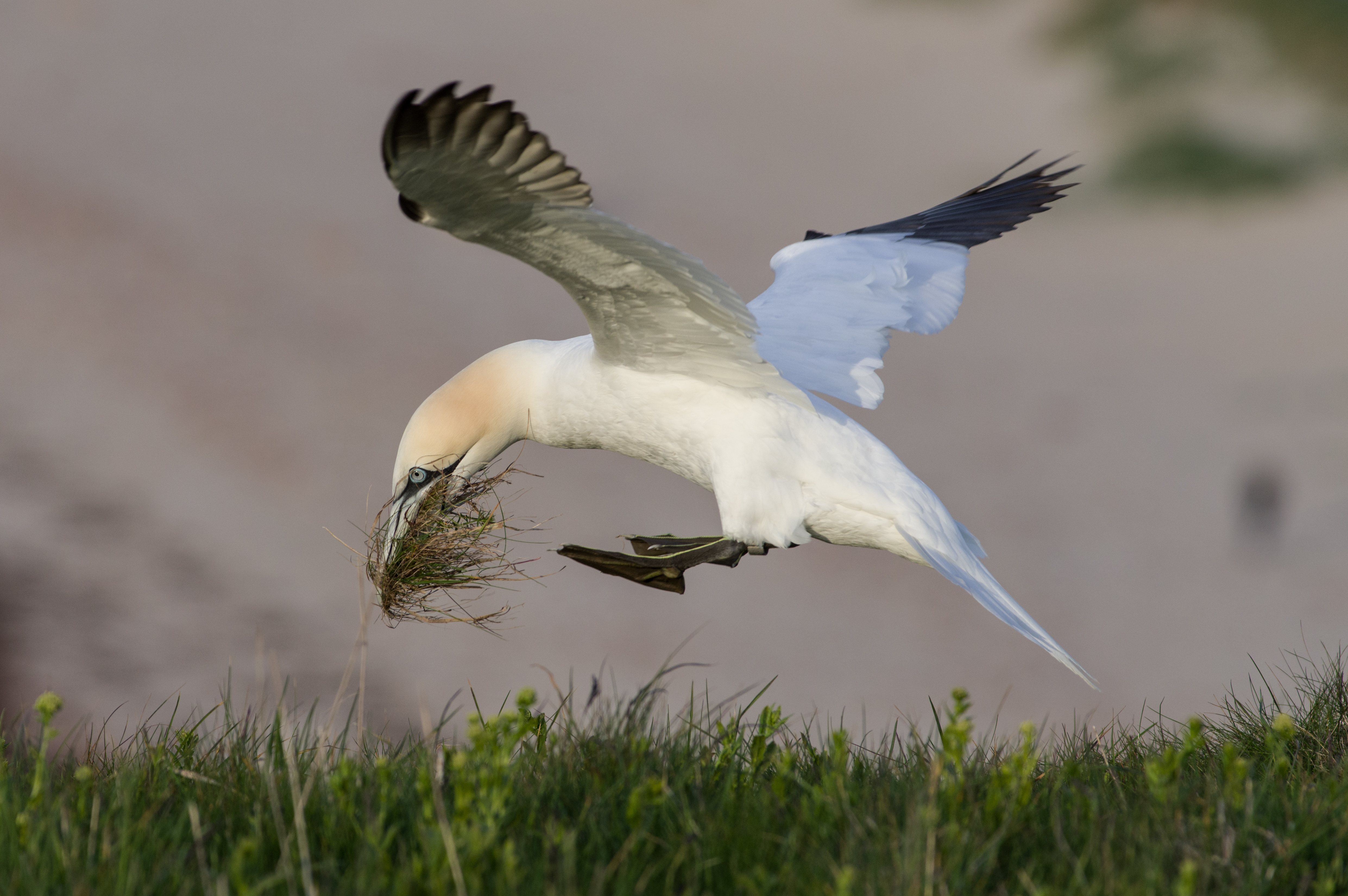 Mature northern gannet (Morus bassanus) with nesting material, at the North Sea island of Heligoland, Germany